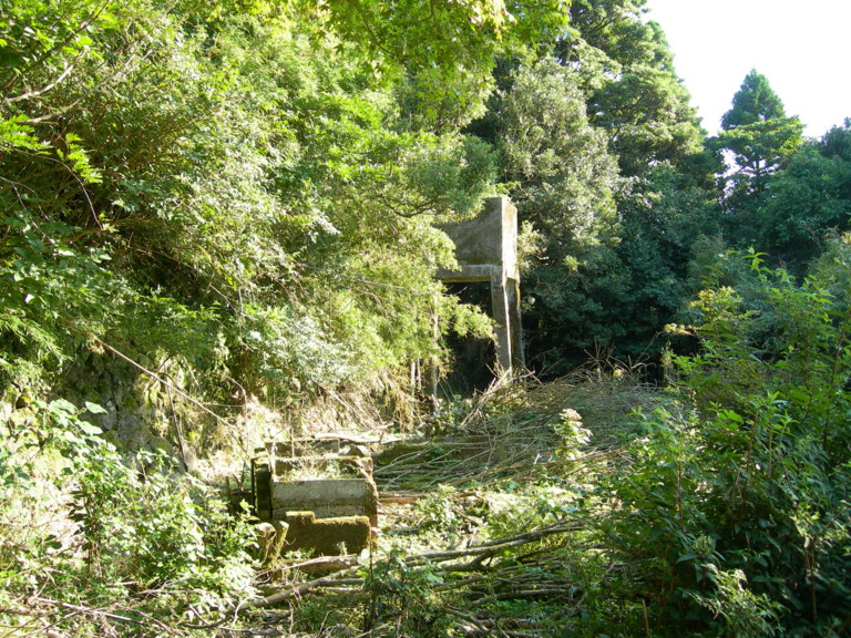 Asama pass in Ise city Mie Prf. Japan.